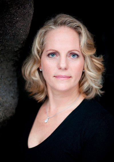 Ariane de Rothschild